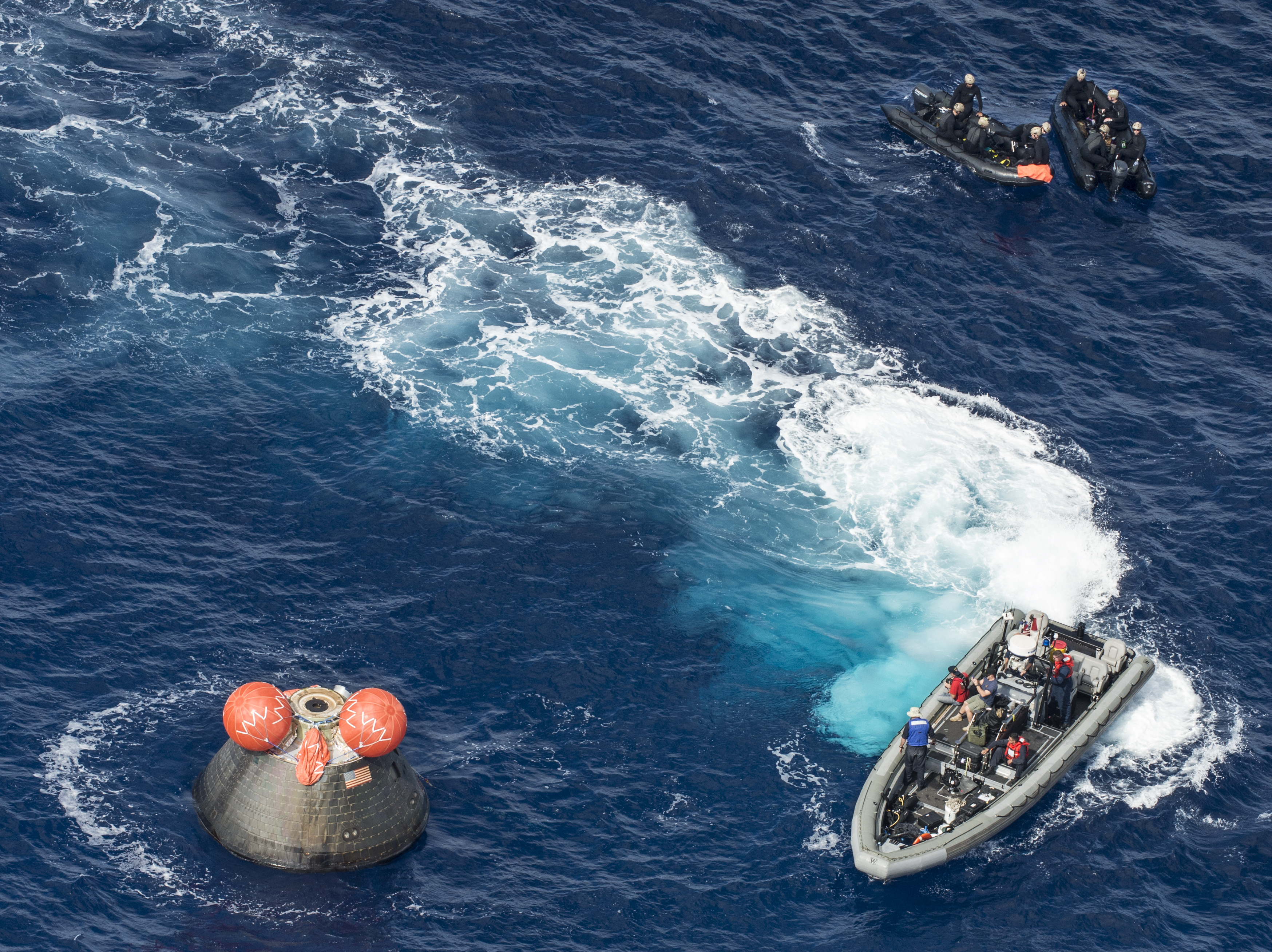 U.S. Navy Divers assigned to Explosive Ordnance Disposal Mobile Unit 11 and Fleet Combat Camera Pacific and crewmembers from amphibious transport dock USS Anchorage (LPD-23) approach the NASA Orion Crew Module after splash down in the Pacific Ocean. Anchorage was conducting the first exploration test flight for the NASA Orion program. EFT-1 was the fifth at sea testing of the Orion Crew Module using a Navy well deck recovery method.